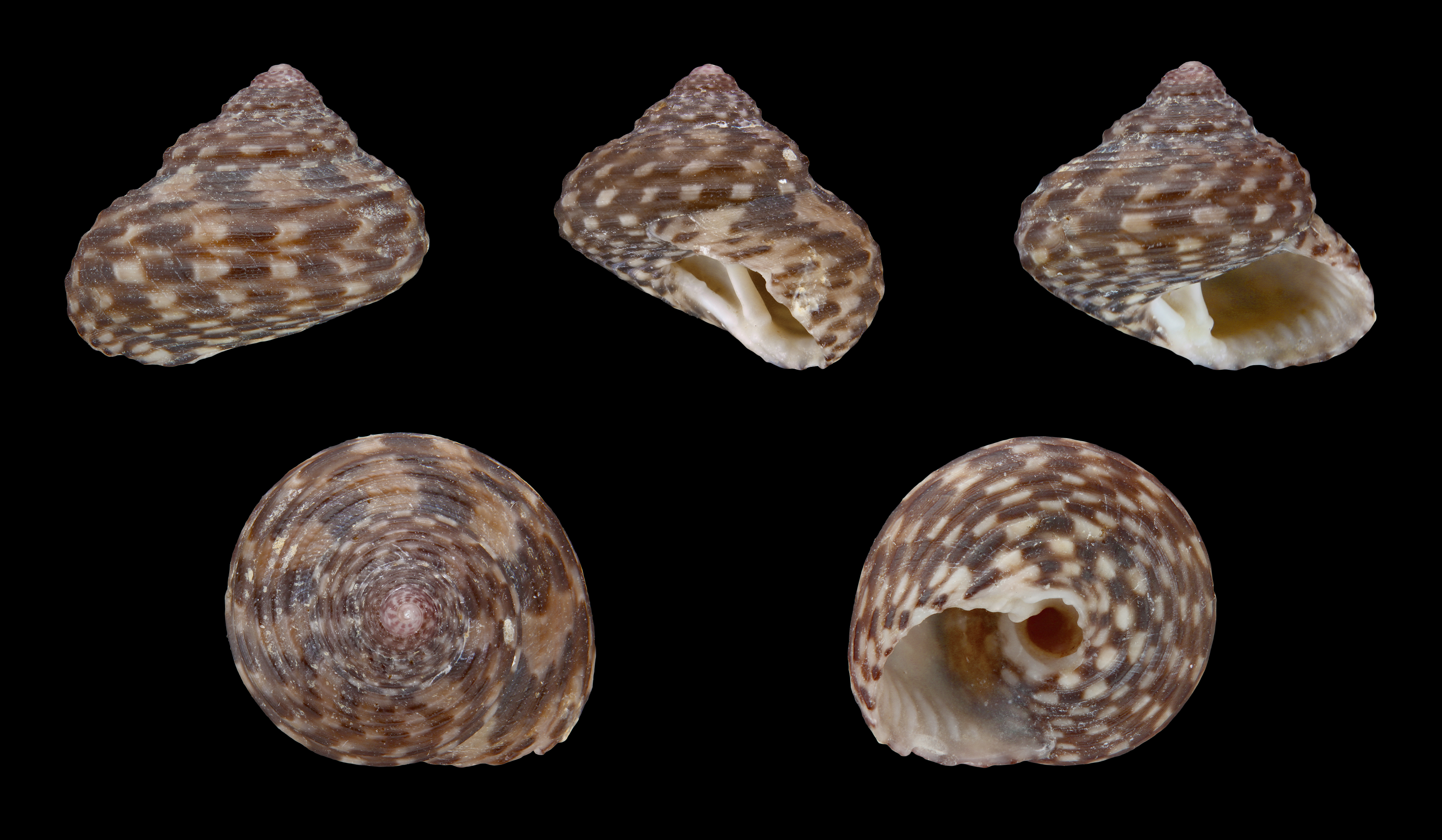 Clanculus jussieui (Payraudeau, 1826), Diameter 1.1 cm; Originating from Port Leucate, France; Shell of own collection, therefore not geocoded.